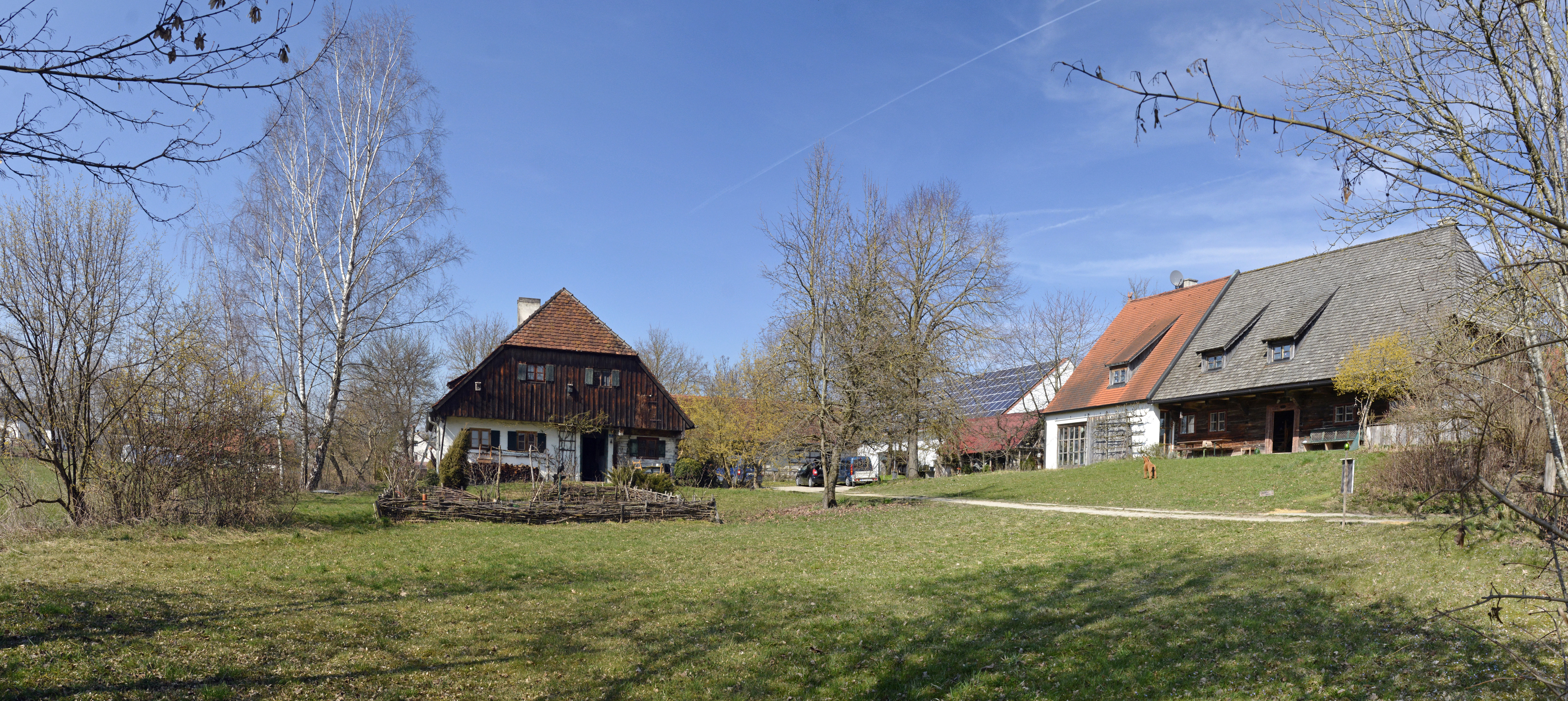 Farm Museum Weichs-Ebersbach (Obb.)